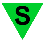 Green triangle with the letter S.